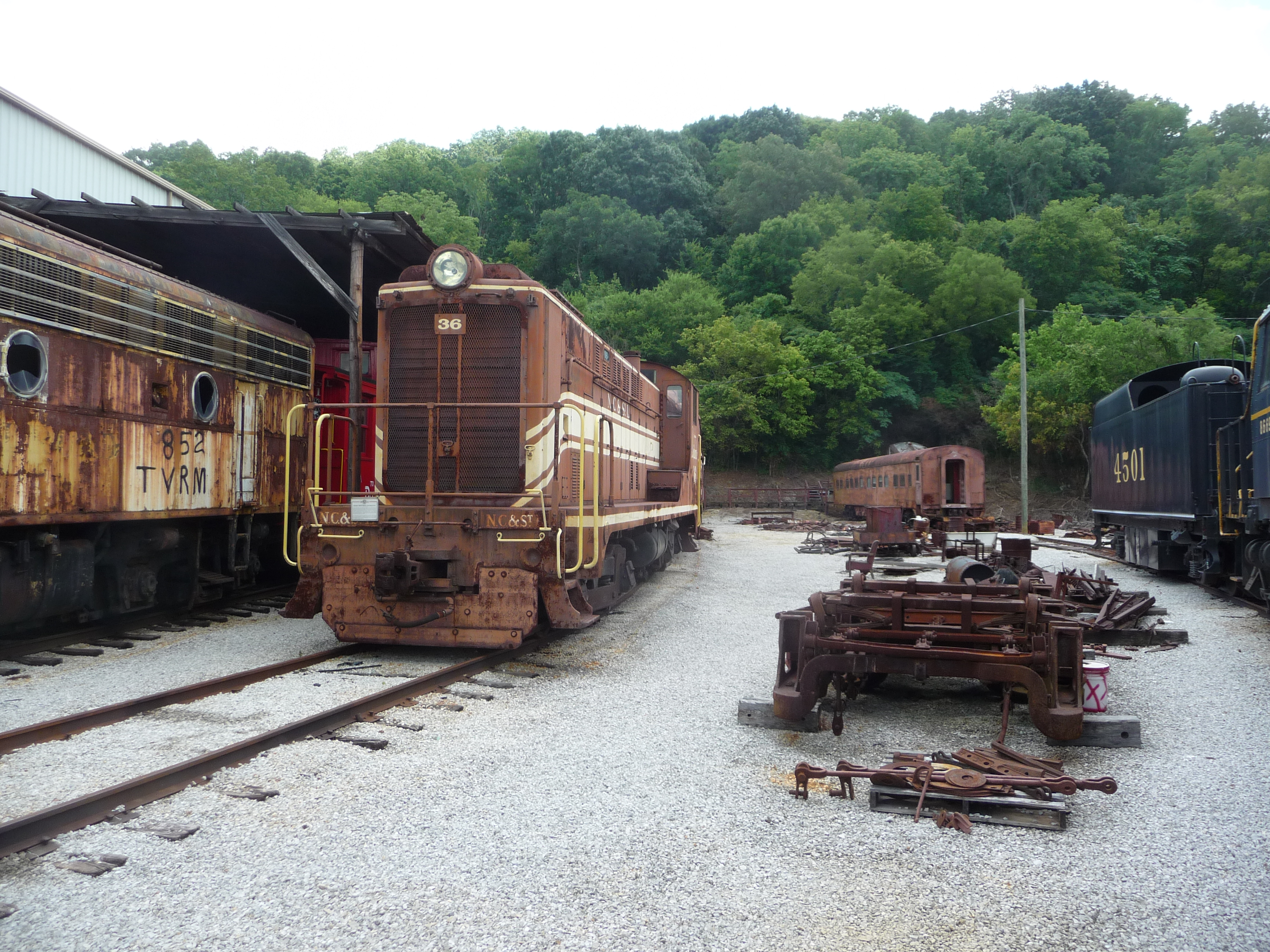 A Baldwin VO-1000 at the Tennessee Valley Railroad Museum. This unit was originally built for the US Army and is now pained in the livery of the Nashville, Chattanooga & St. Louis Railway.